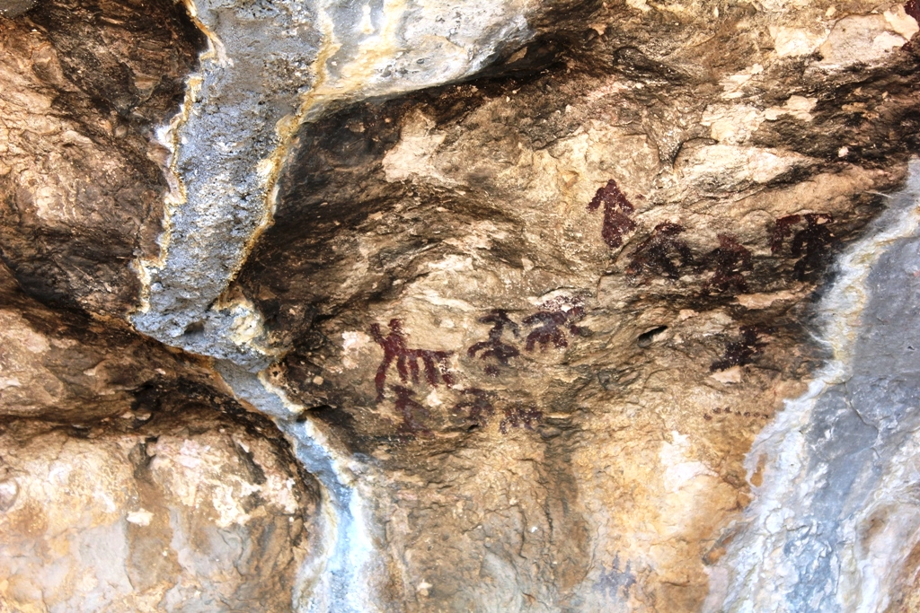 Mallata B: Dos escenas de captura de un cérvido